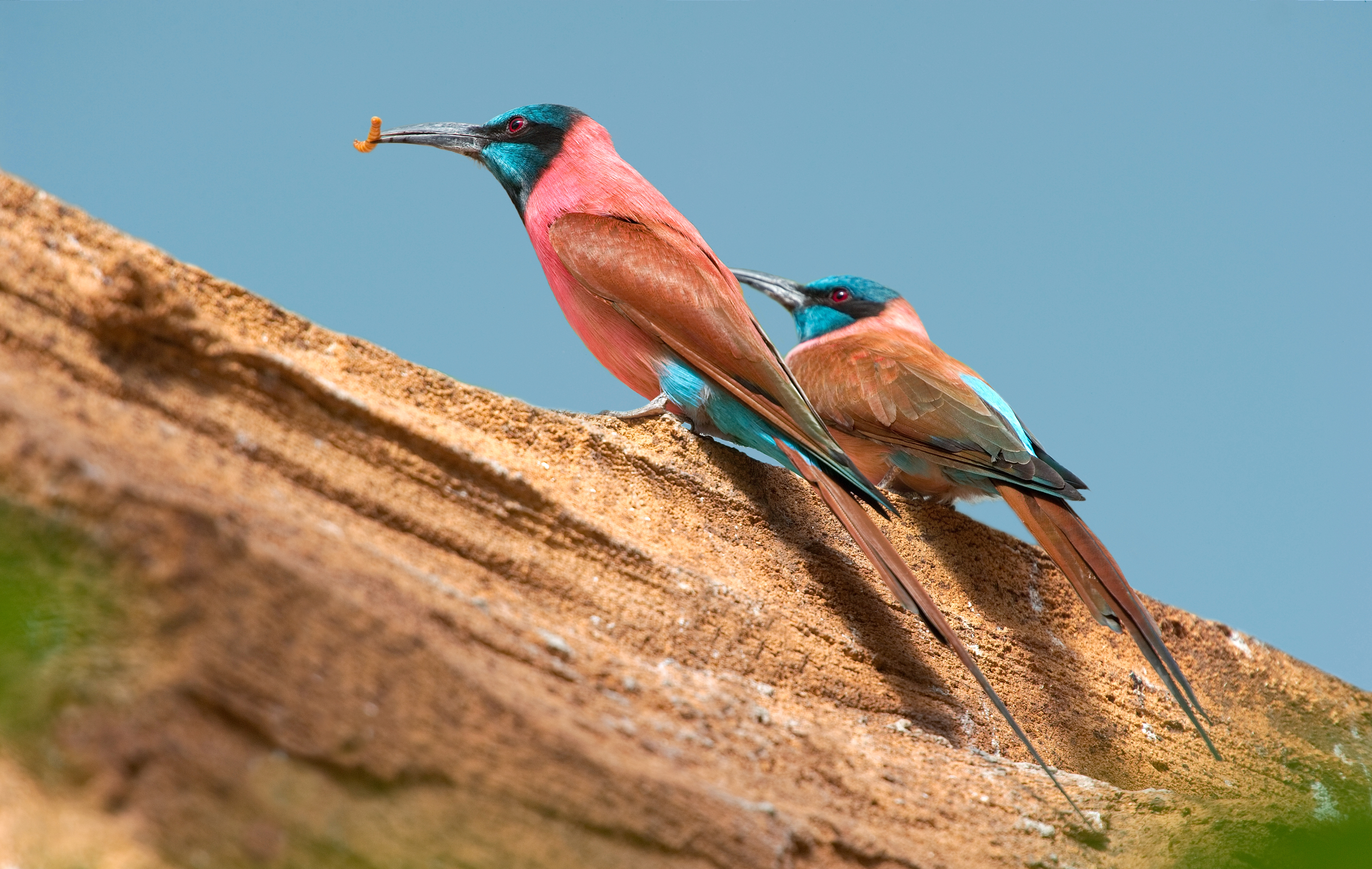 Merops nubicus Northern Carmine Bee-eater in Belgium pairi daiza zoo